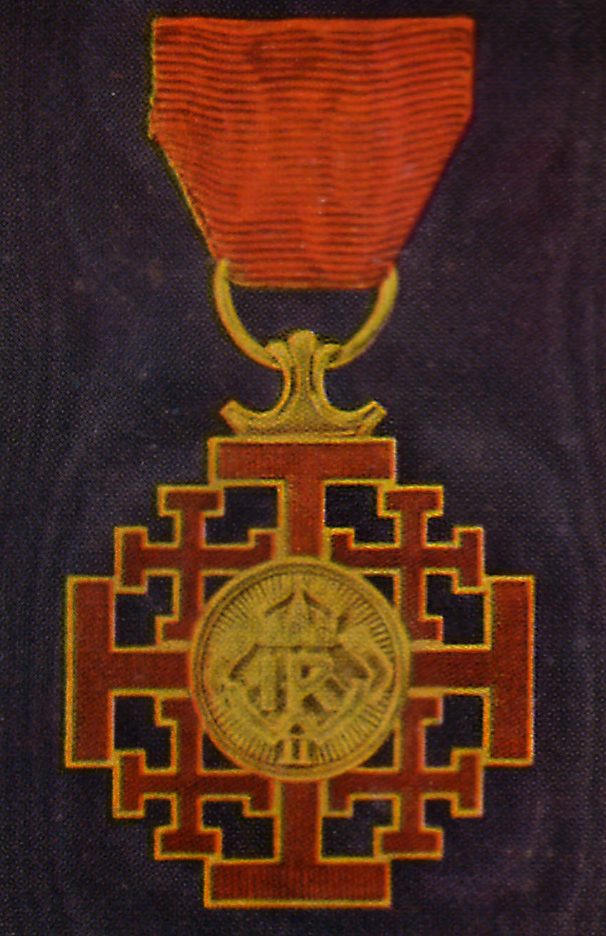 Jerusalem Cross (German Empire)